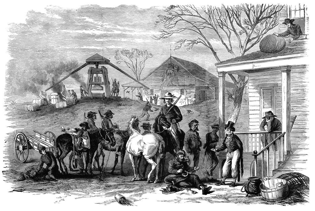 Sherman’s ‘Bummers’ foraging in South Carolina. Published in Frank Leslie’s Illustrated Magazine, 1865, and reprinted in Famous Leaders and Battle Scenes of the Civil War (1896)